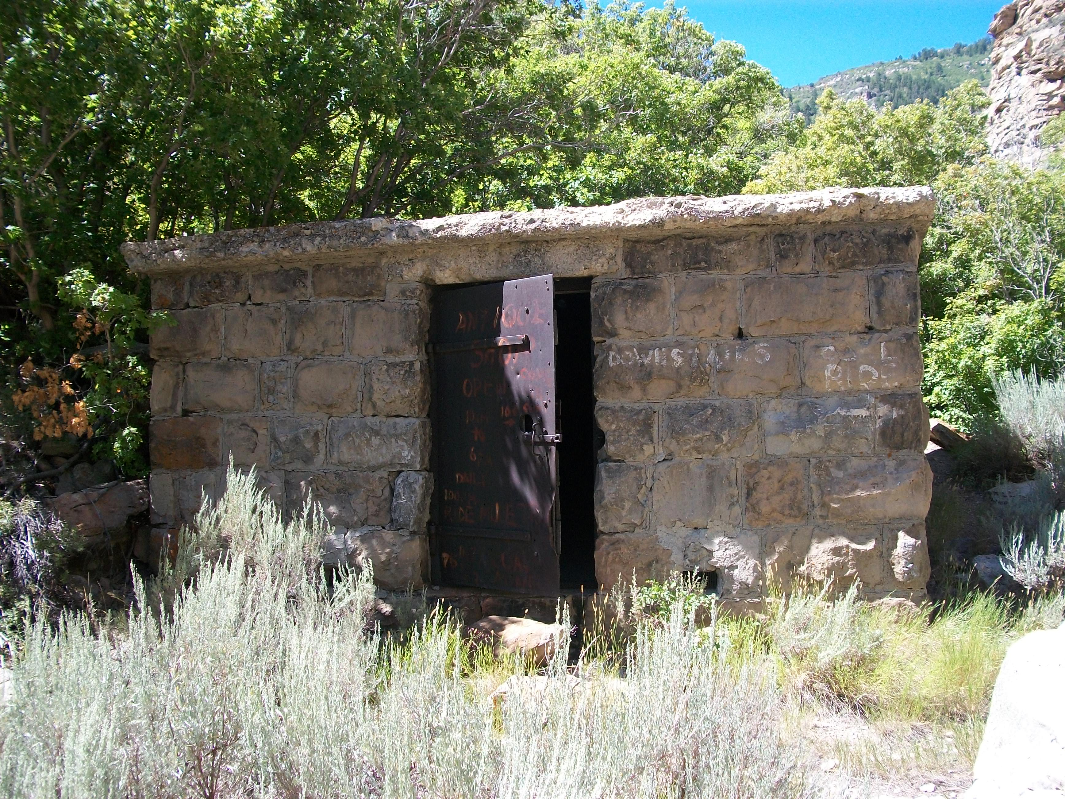 A miner's dwelling in Royal, Utah.